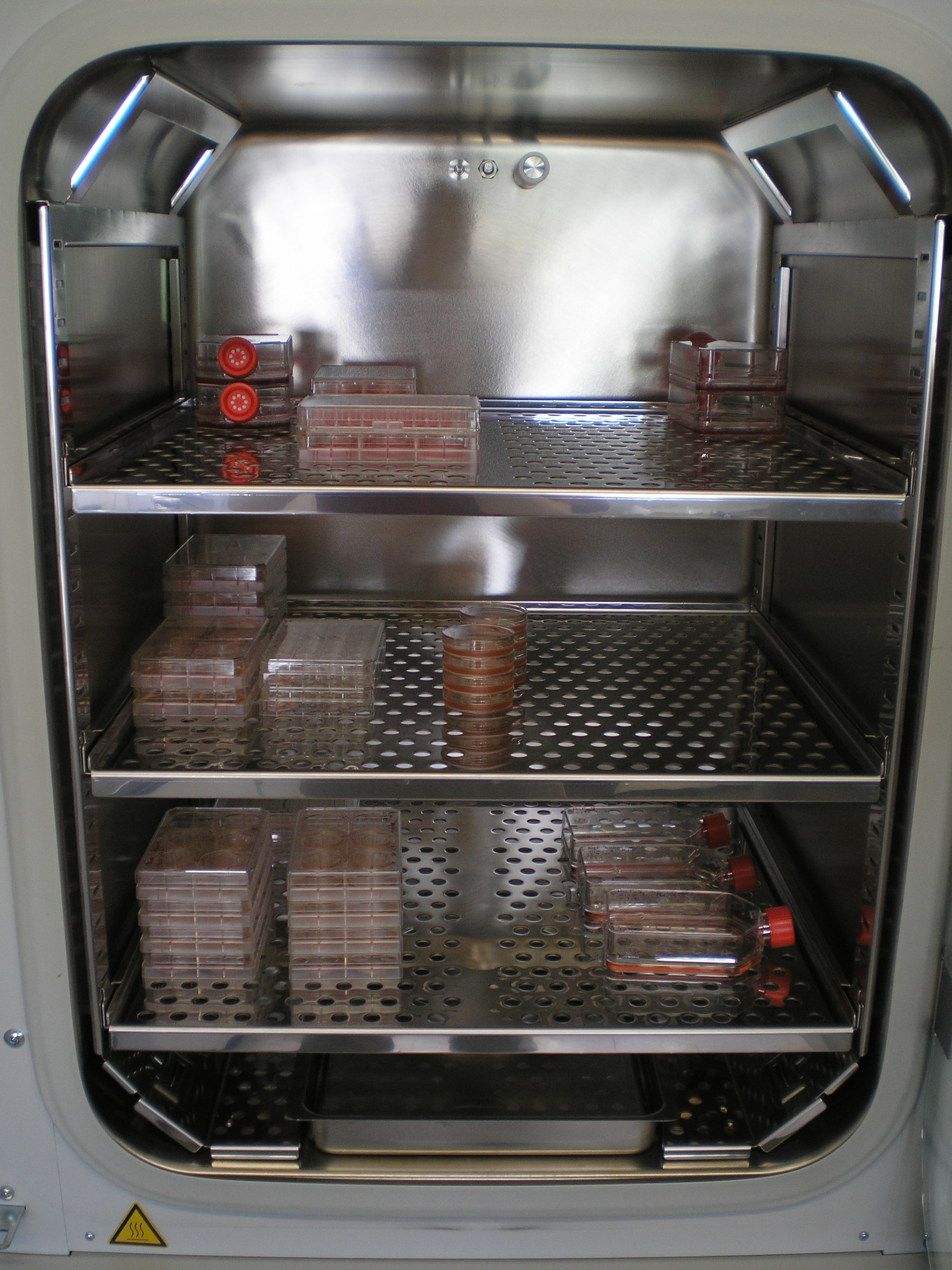 Interior of a Binder CB 210 CO2 incubator for use in cell culture and tissue culture. It contains several vessels commonly used in cell culture such as culture flasks, petri dishes, and microtiter plates. The red liquid in the vessels is cell culture medium such as DMEM containing the pH indicator phenol red.